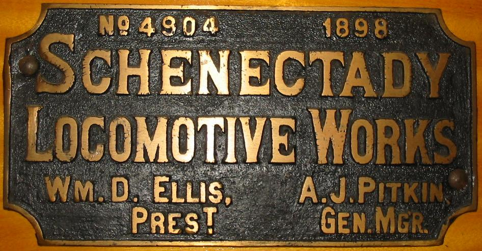 Schenectady Locomotive Works builder's plate on display at the Mid-Continent Railway Museum, North Freedom, WI. Plate is from Northern Pacific Railway class Y 2-8-0 #34, scrapped 1957